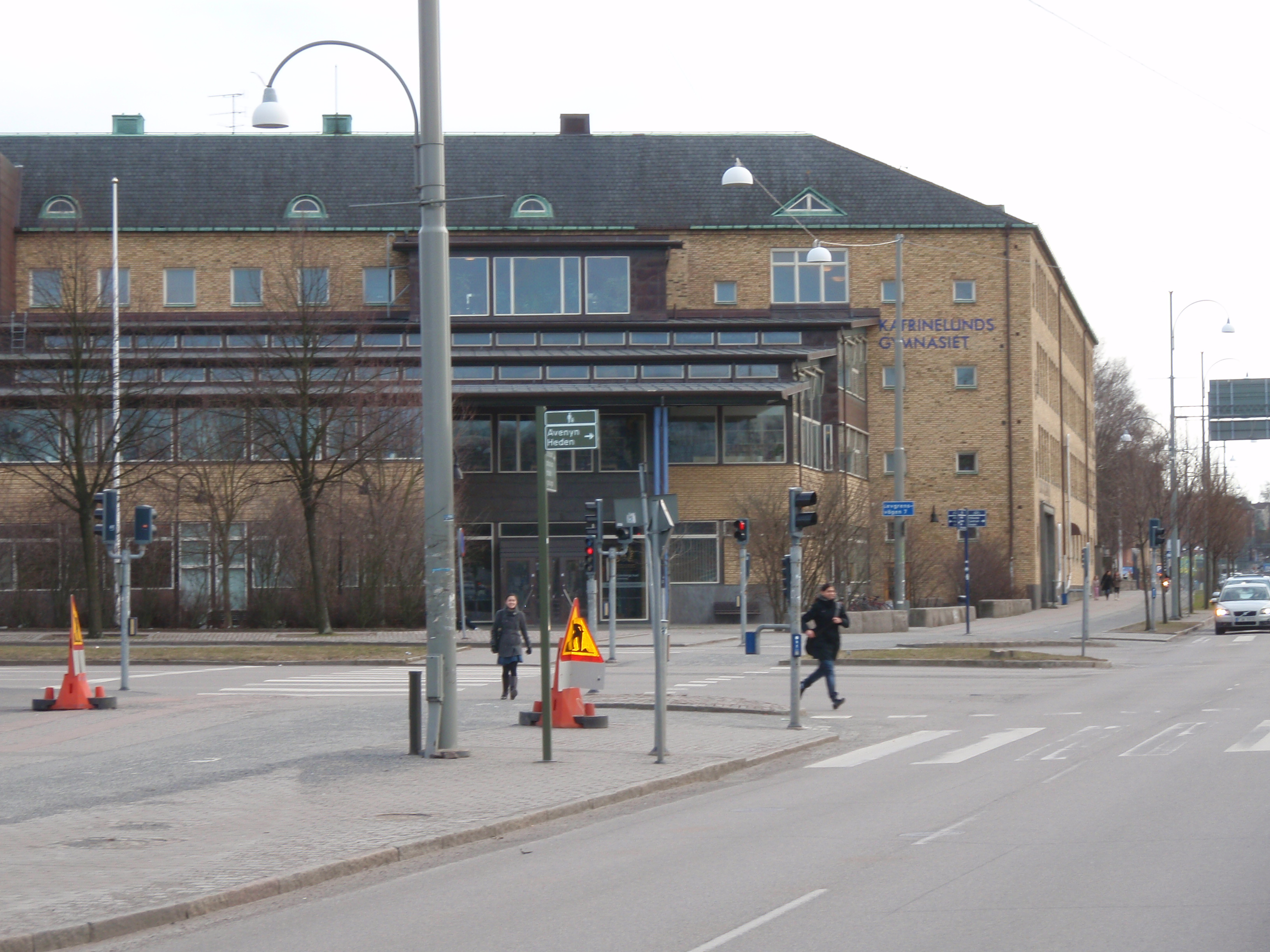 Katrinelundsgymnasiet i Göteborg.